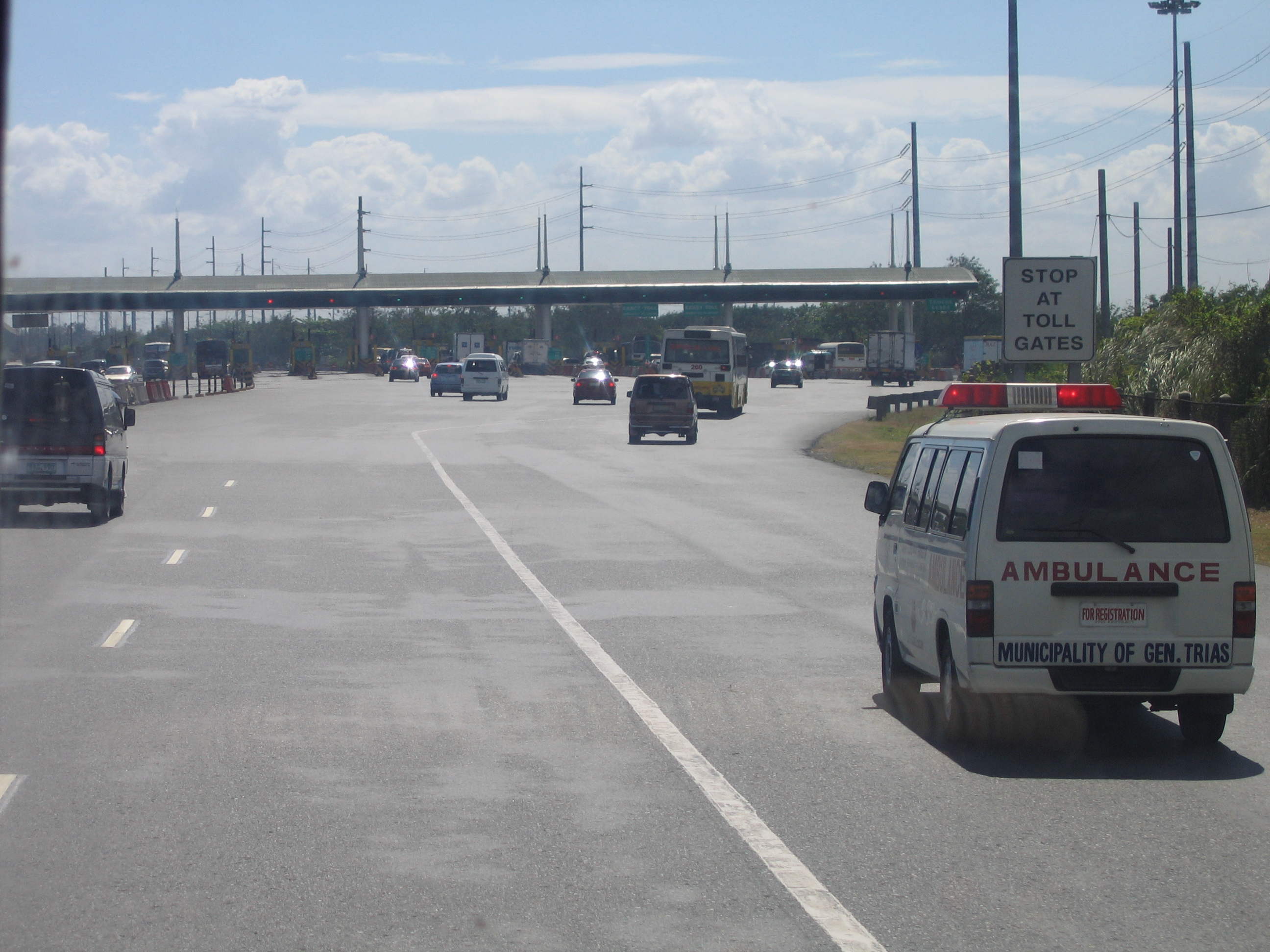 A picture of the lone toll barrier along the Manila-Cavite Expressway in the Philippines. Taken by the uploader during a personal visit there.